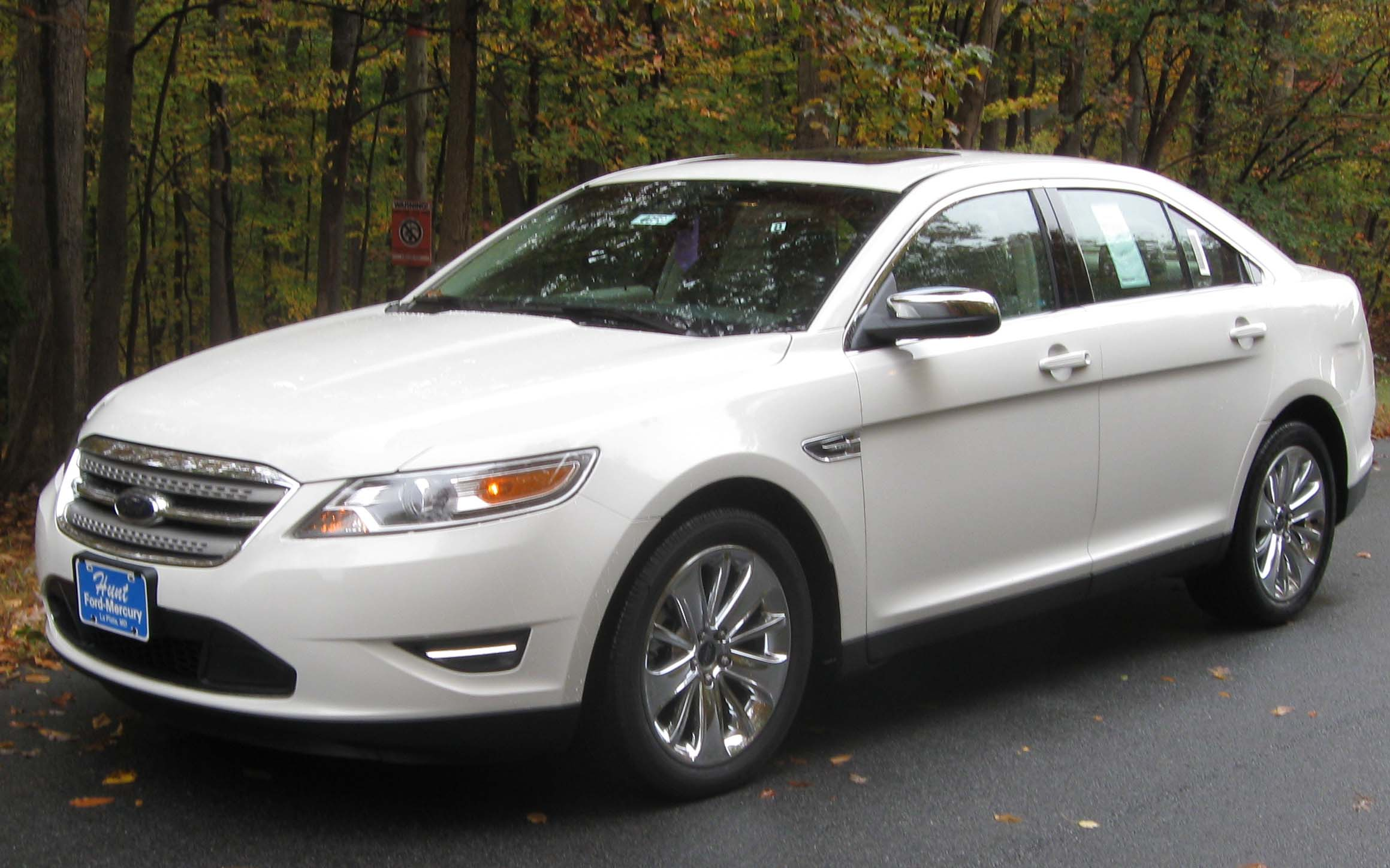 2010 Ford Taurus Limited photographed in La Plata, Maryland, USA.